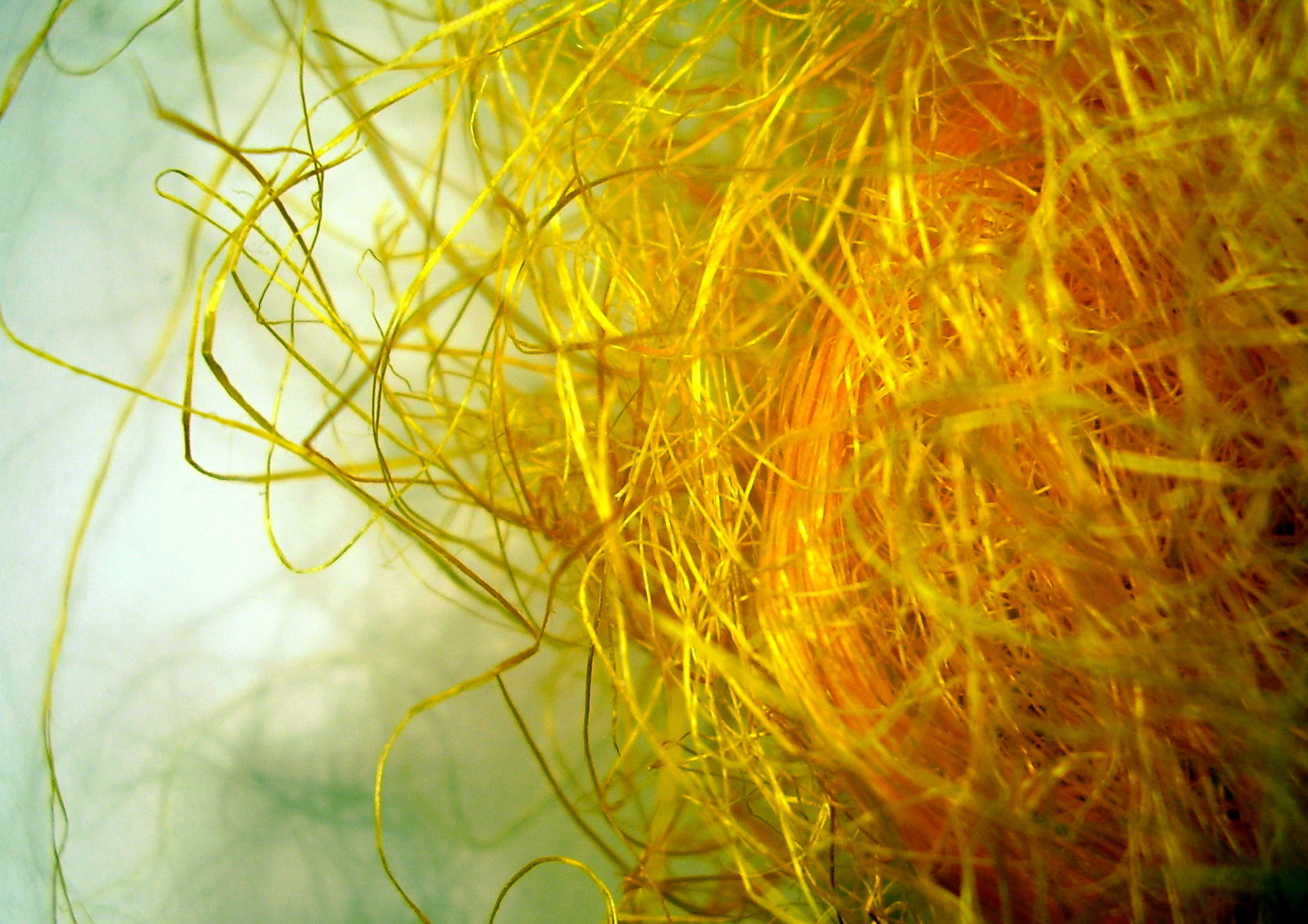 Sisal